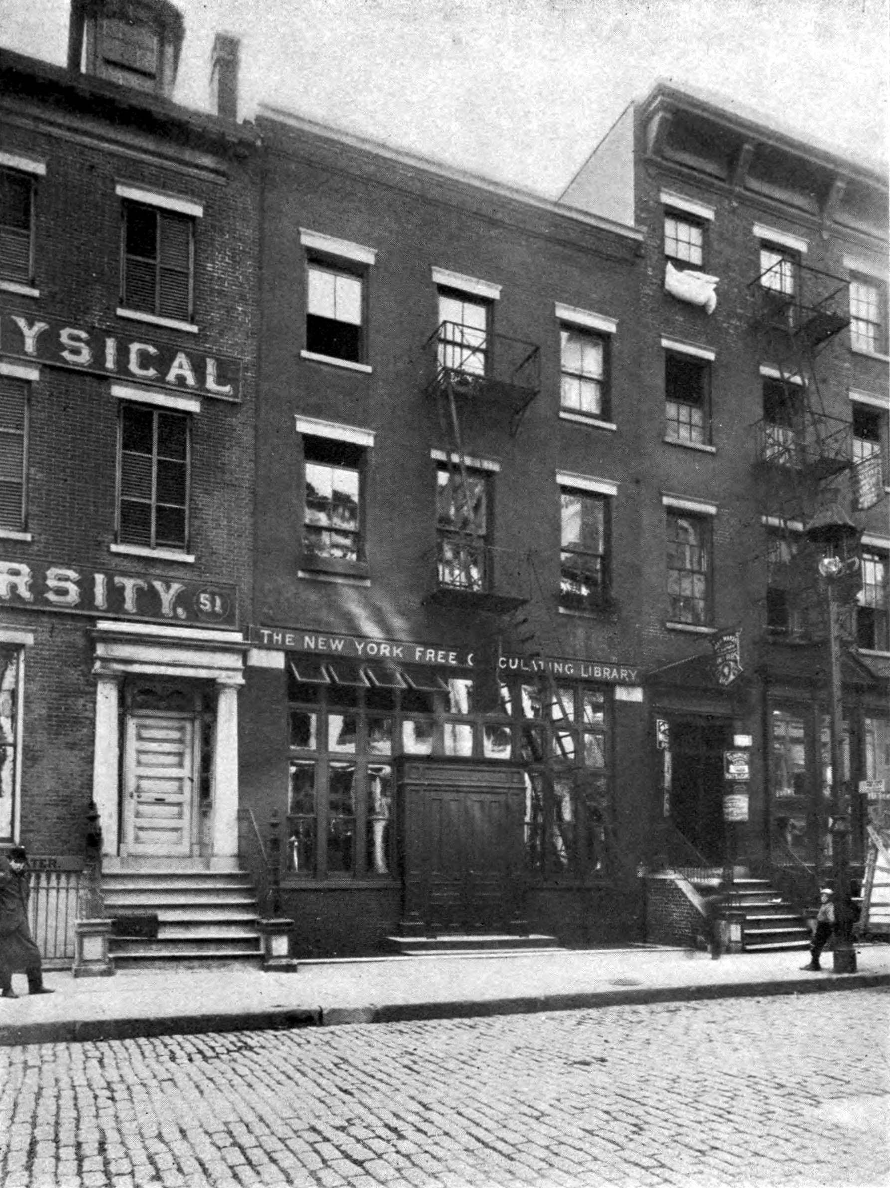 Photograph of the Bond Street Branch of the New York Free Circulating Library.